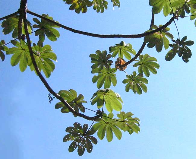 Leaves and branches of Cecropia peltata